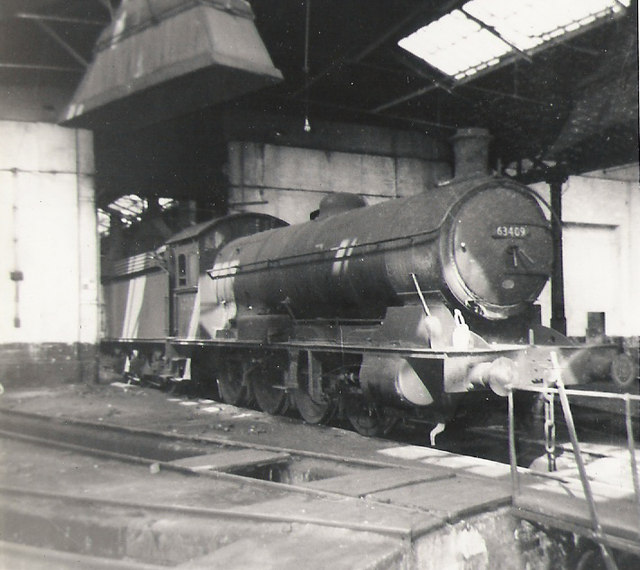 Tyne Dock locomotive shed. A former NER T2 (LNER Q6) locomotive stands in one of the 'round-house' sheds at Tyne Dock.